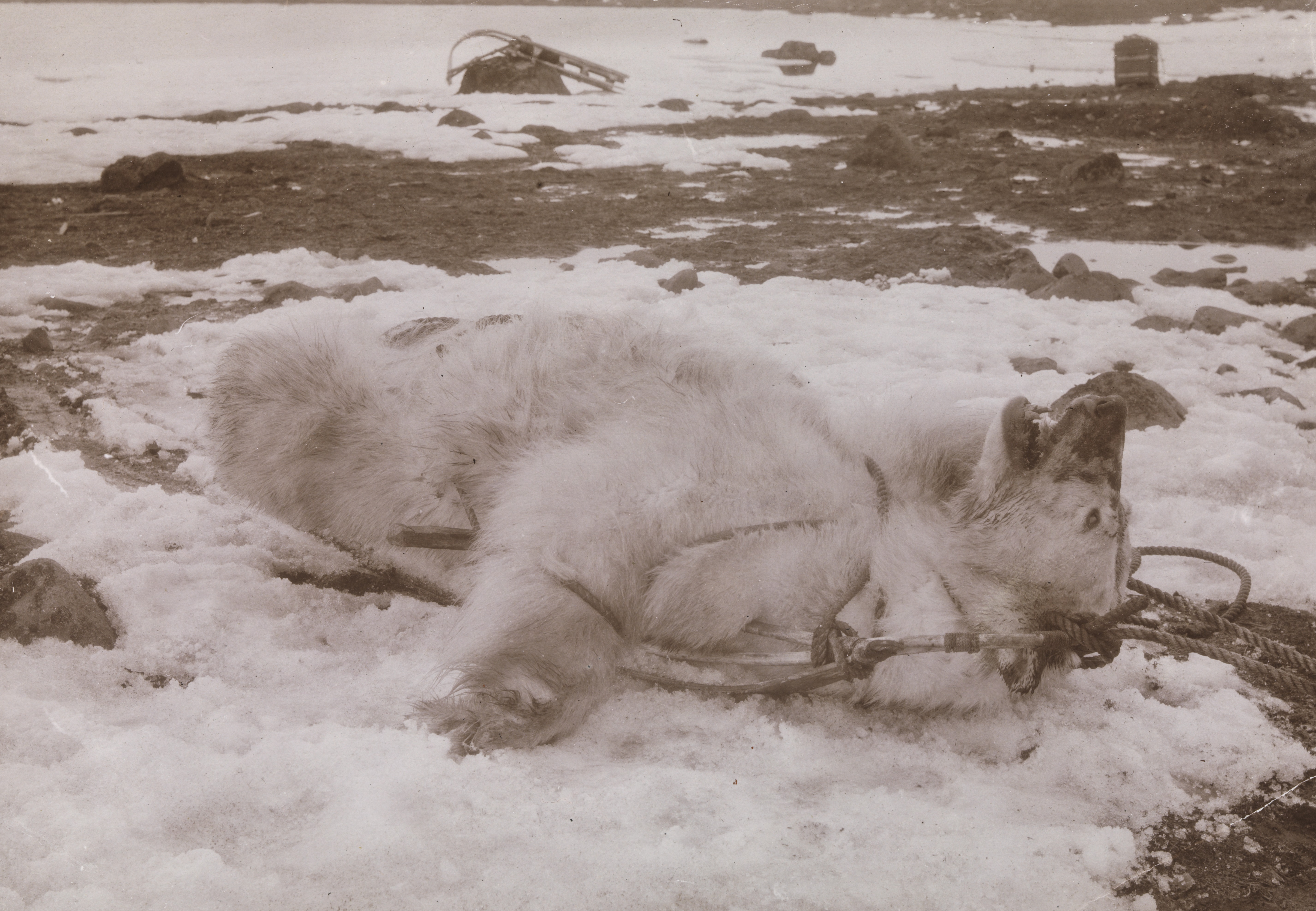 Transporting a polar bear that was shot by F. Jackson. One of the pictures from the expedition with arctic ship toward the North Pole in the period June 24, 1893 to August 13, 1896. According to the plan, the ship was to drift in the ice with the ocean current from the coast of Siberia across the North Pole to Greenland. In March 1895, Fridtjof Nansen, together with a companion, set out with dogsledges on a hazardous expedition on skis, in an attempt to reach the pole itself.